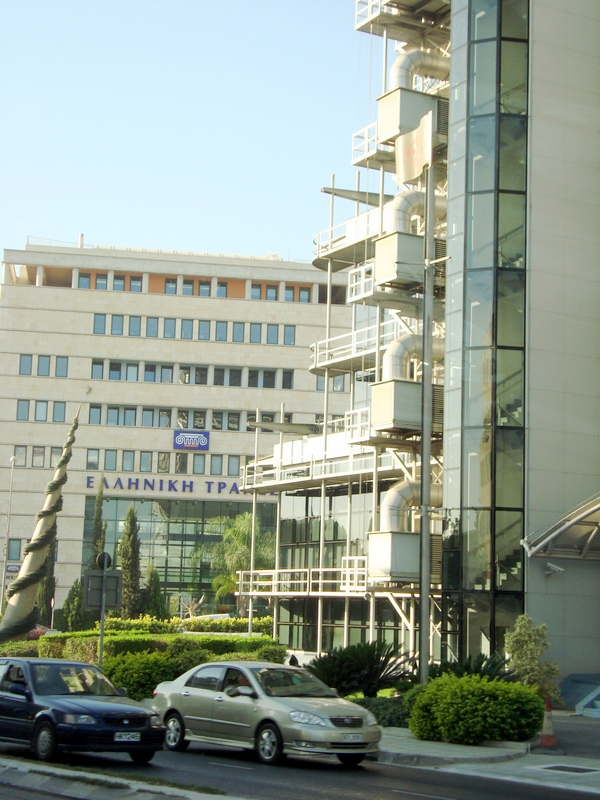 The Hellenic Bank in Nicosia